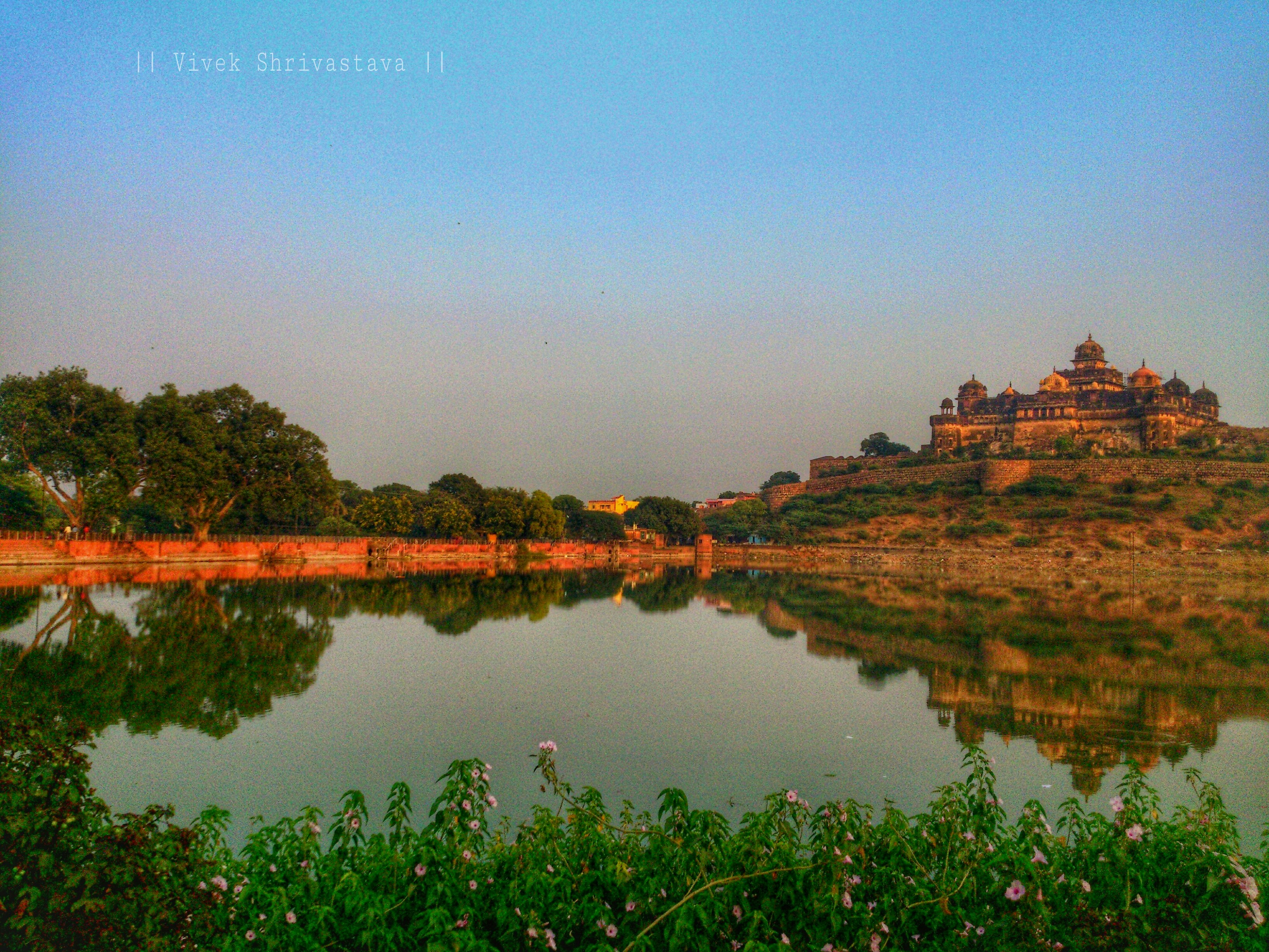 Veer Singh Palace Datia as seen from Lala ka Taal